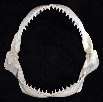 Carcharhinus albimarginatus